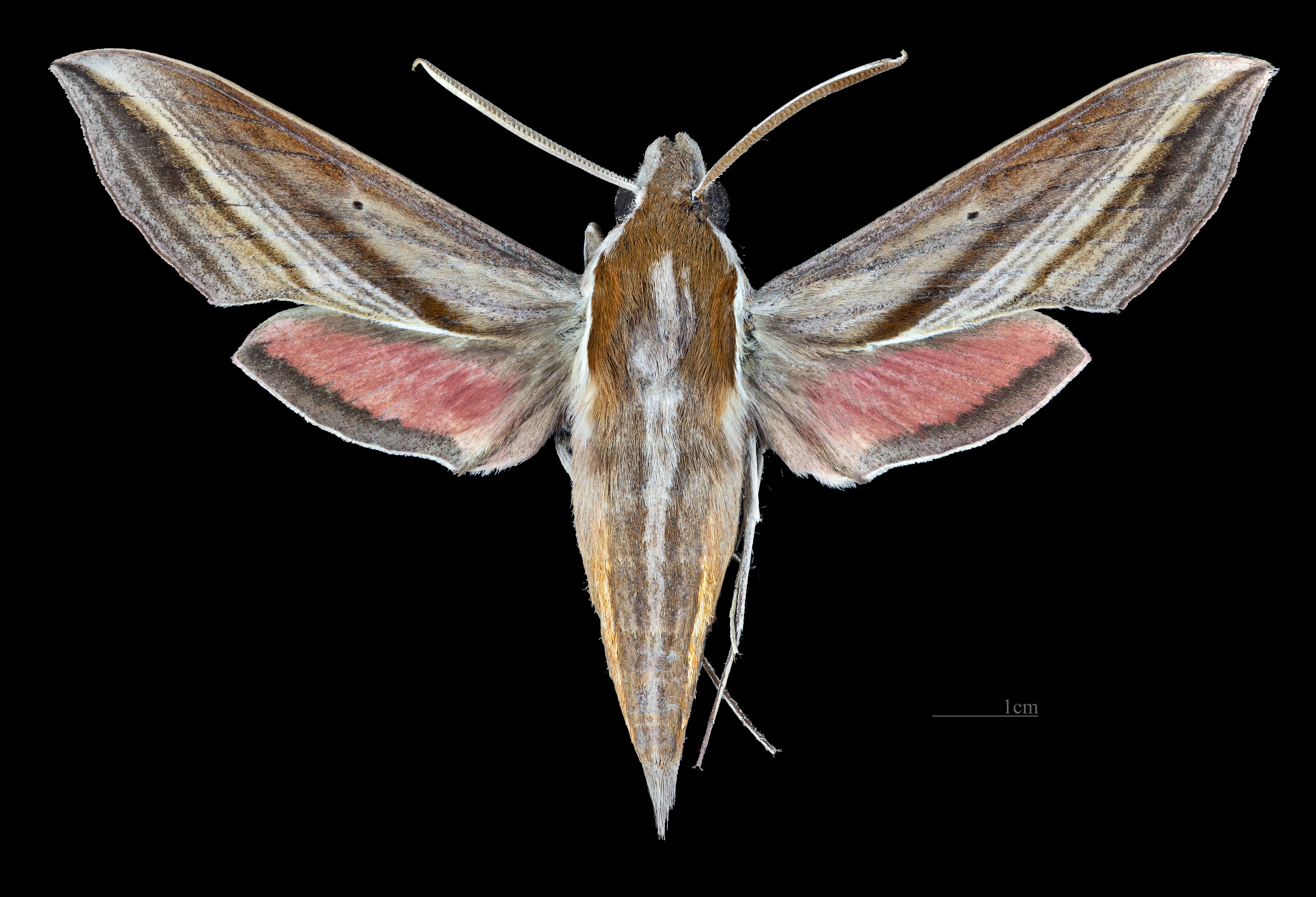 Hippotion rafflesii - Dorsal side Collection of the Mathematician Laurent Schwartz